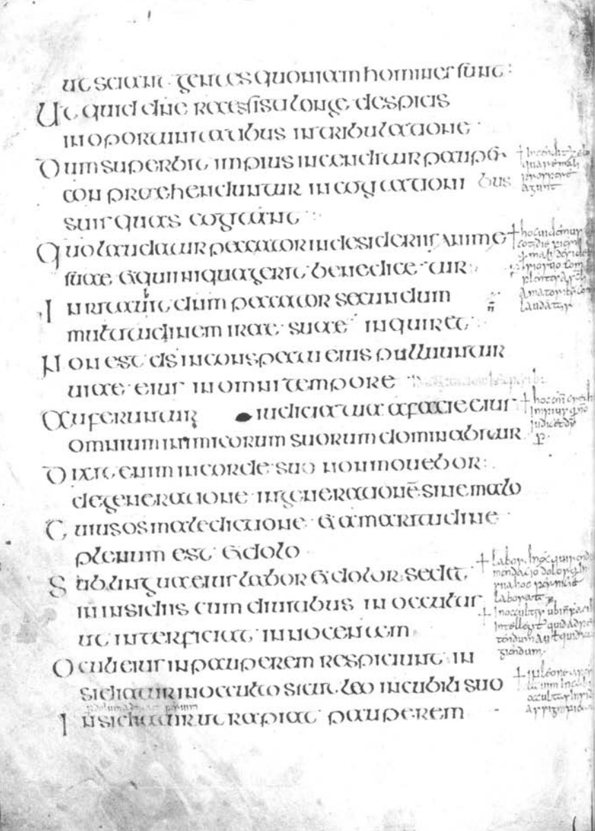 Blickling Psalter (Morgan Library & Museum, MS M.776) - folio 64v